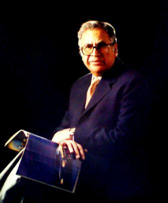 Riazuddin